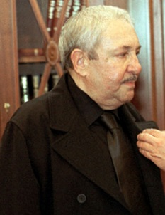 Ernst Iosifovich Neizvestny receives Order of Honor.